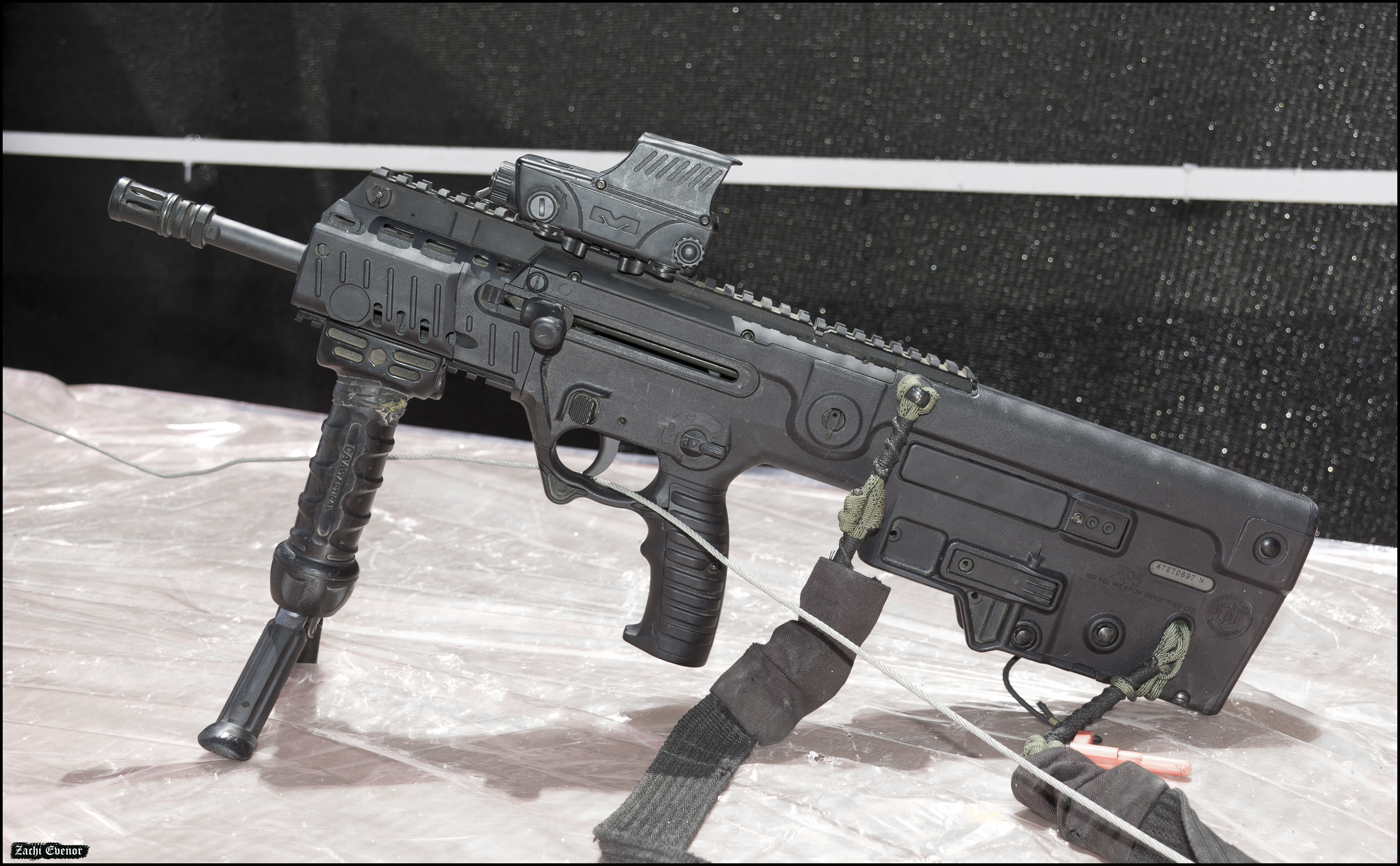 IDF's IWI Tavor X-95 Flat-top, Israel's 71th Independence Day, Yad LaShiryon, Israel, 2019